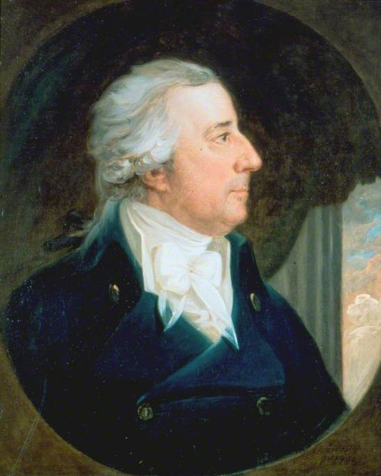 Portrait of Francis Annesley (1734–1812), English politician and first Master of Downing College, Cambridge.